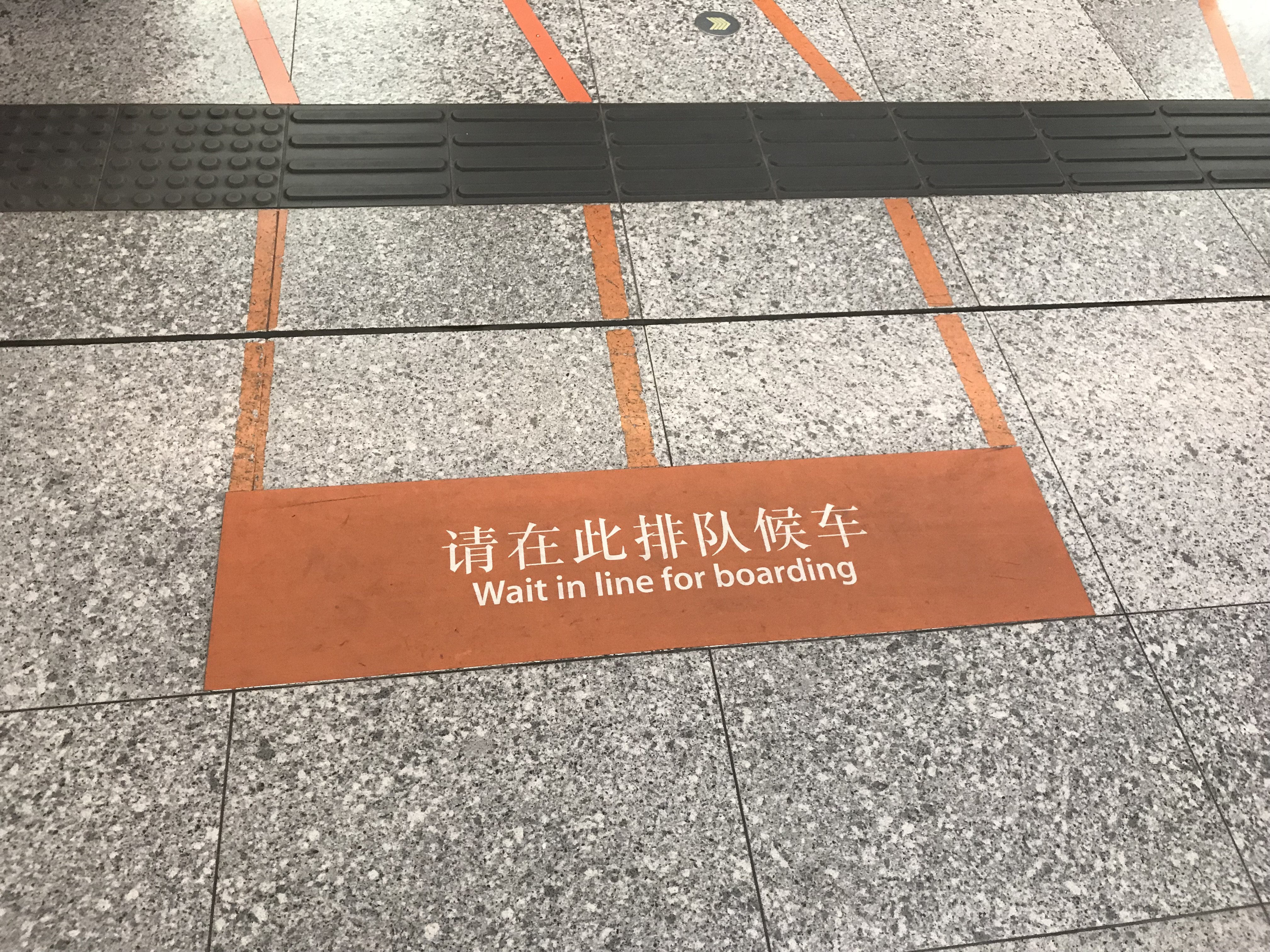 201901 Wait In Line sign at Shenzhen MTR Shenzhenbei Station